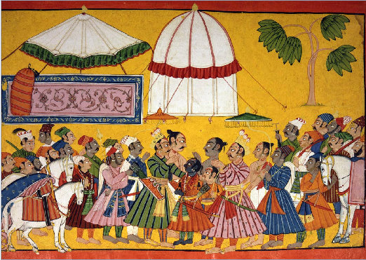 "King Janaka Greets Dasharatha Before Rama's Wedding: In this scene from an earlier part of the epic "Shangri" Ramayana, Rama and his brother Lakshmana are depicted as young boys. Through a feat of divine strength, Rama has won the hand of the beautiful Sita, daughter of King Janaka of Mithila. Janaka invites Rama's father, King Dasharatha, to come to Mithila for the marriage rites. In this painting, Janaka greets Dasharatha, who has arrived with his priests and courtiers and set up his tents outside Janaka's city."